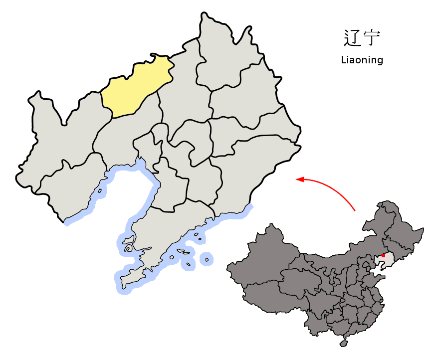 Location of Fuxin Prefecture (yellow) within Liaoning Province of China Map drawn in november 2007 using various sources, mainly : Liaoning Province administrative regions GIS data: 1:1M, County level, 1990 Liaoning Counties map from